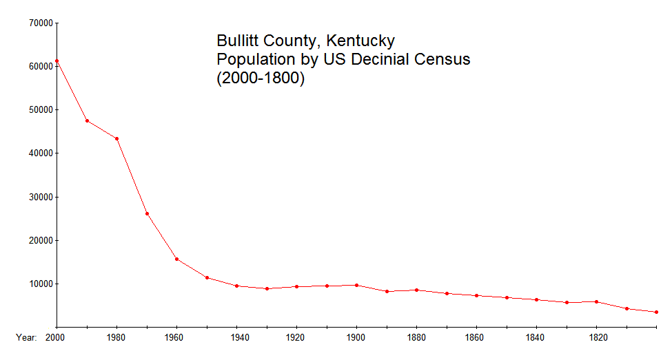 Graph of Bullitt County population. Created by uploader, all rights released.